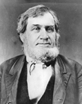 David Bittle, the first President of Roanoke College. The photo was taken more than 100 years ago. It is of a person who died more than 100 years ago.